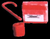 Semtex A plastic explosive